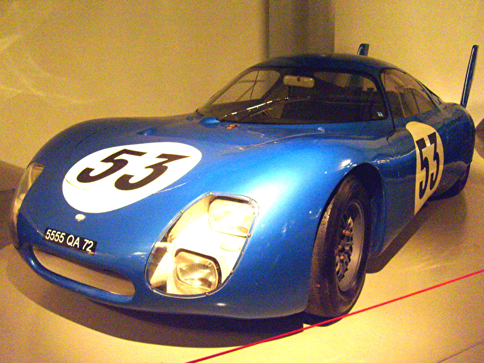 a CD-Peugeot at Musee de L'Automobile - Le Mans